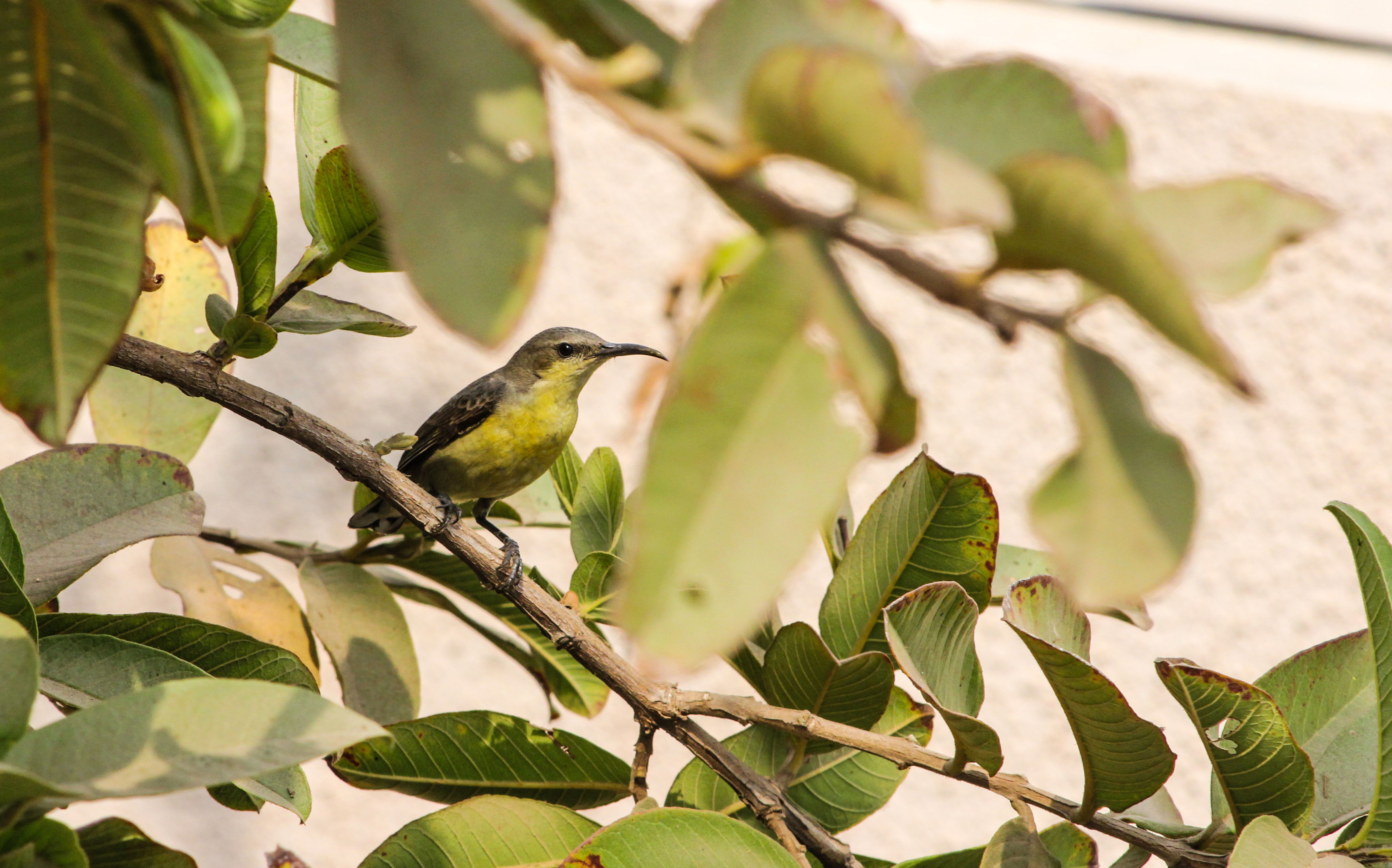 The Female Purple Sunbird (Cinnyris asiaticus) providing the practical training session to its Juvenile regarding the ways to survive in the new world